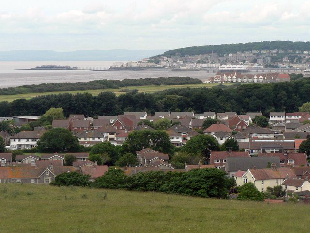 A view over Weston Super Mare, Somerset, England